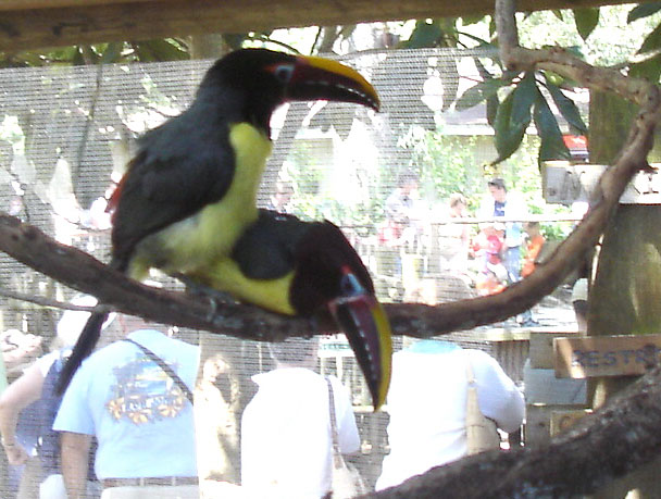 Green Aracari